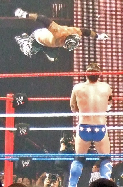 Rey Mysterio attempting a flying headbutt from the top rope to CM Punk during the WWE Capitol Punishment pay-per-view on 19 June 2011.